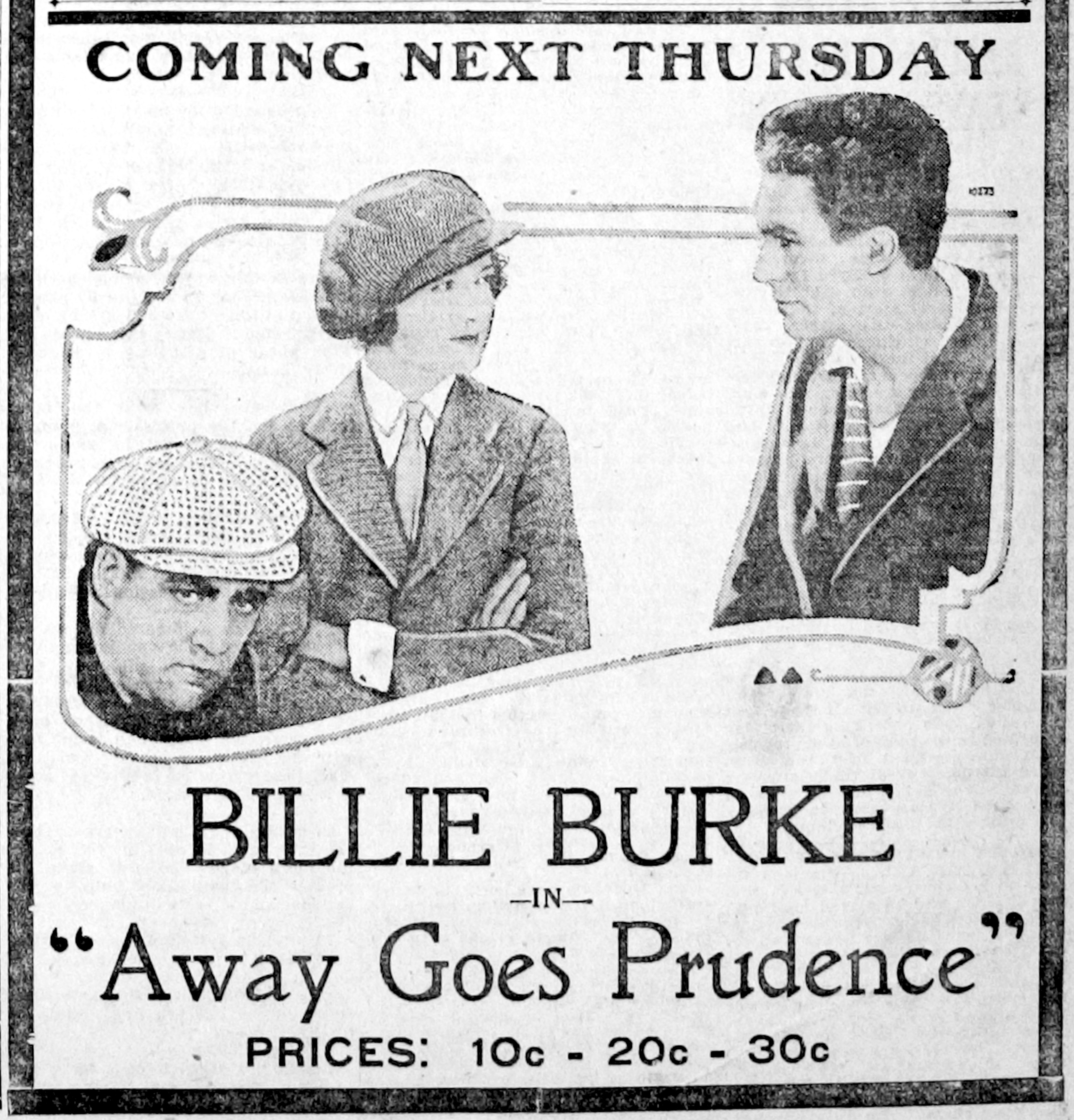 Away Goes Prudence is a 1920 silent film comedy produced by Famous Players-Lasky and distributed by Paramount Pictures. This is a newspaper advertisement for the film in The Ogden Standard-Examiner.